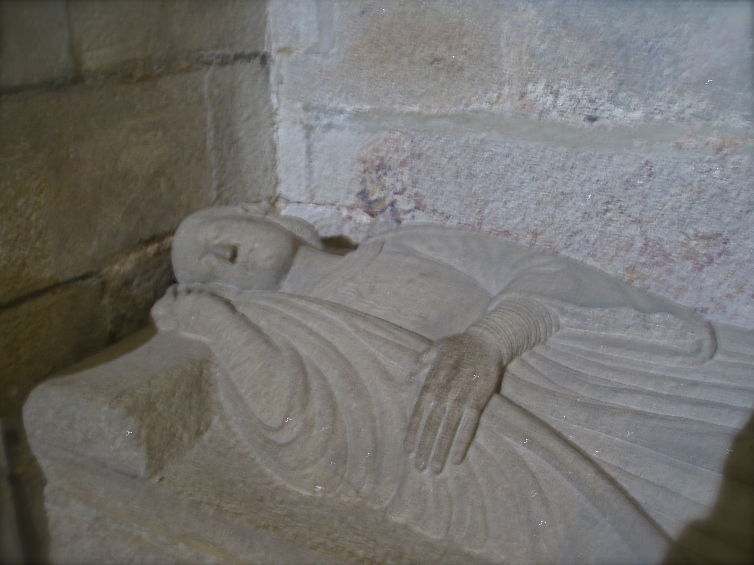 Tomb of Ferdinand of León, in the Royal Chapel of the Cathedral of Santiago de Compostela. He was a son and heir of the king Afonso VIII of Galicia and León.